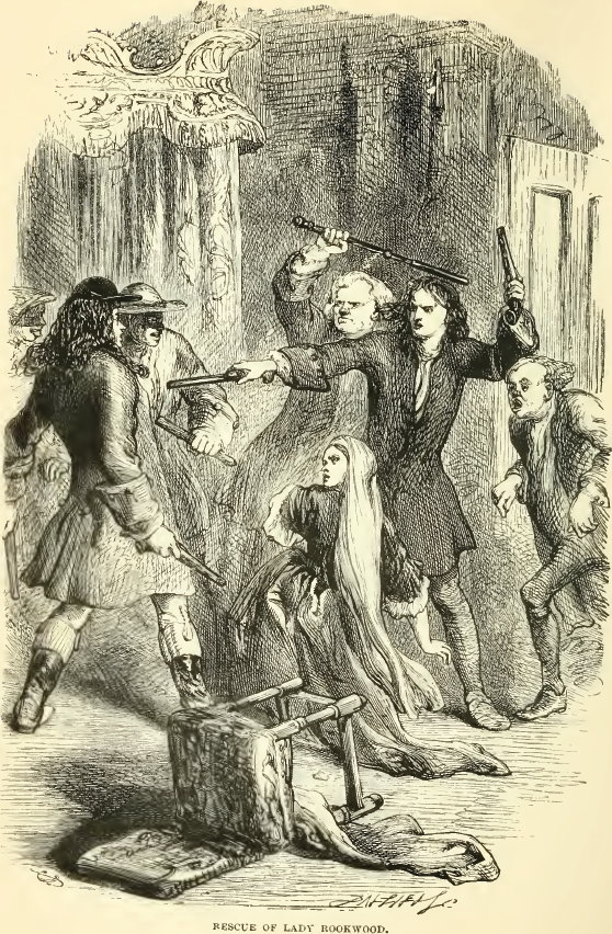 Rescue of Lady Rookwood. Made by George Cruikshank (1792-1878).